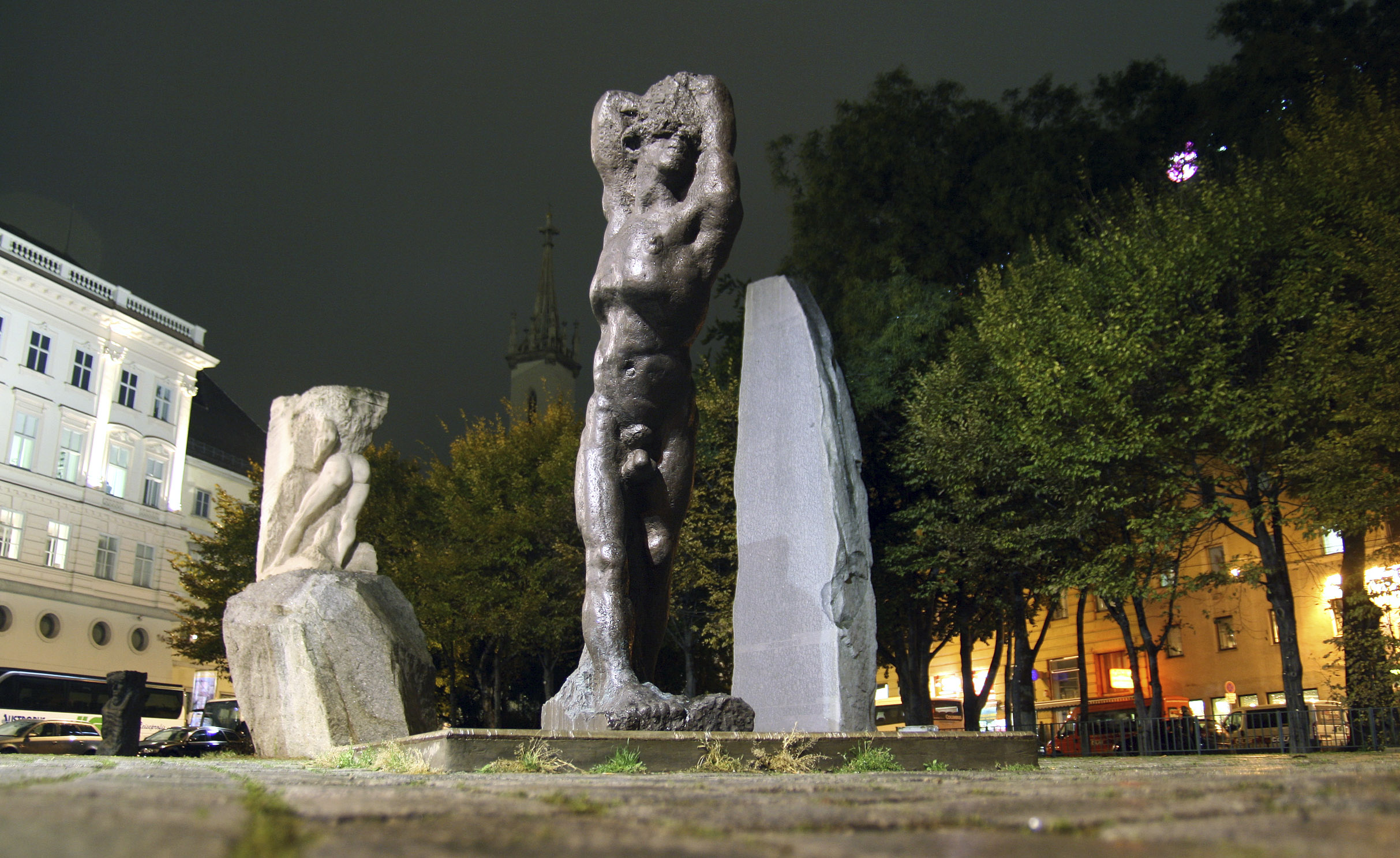 Alfred Hrdlicka: Orpheus I (bronze, 2008) near the Monument against War and Fascism (1988); Vienna